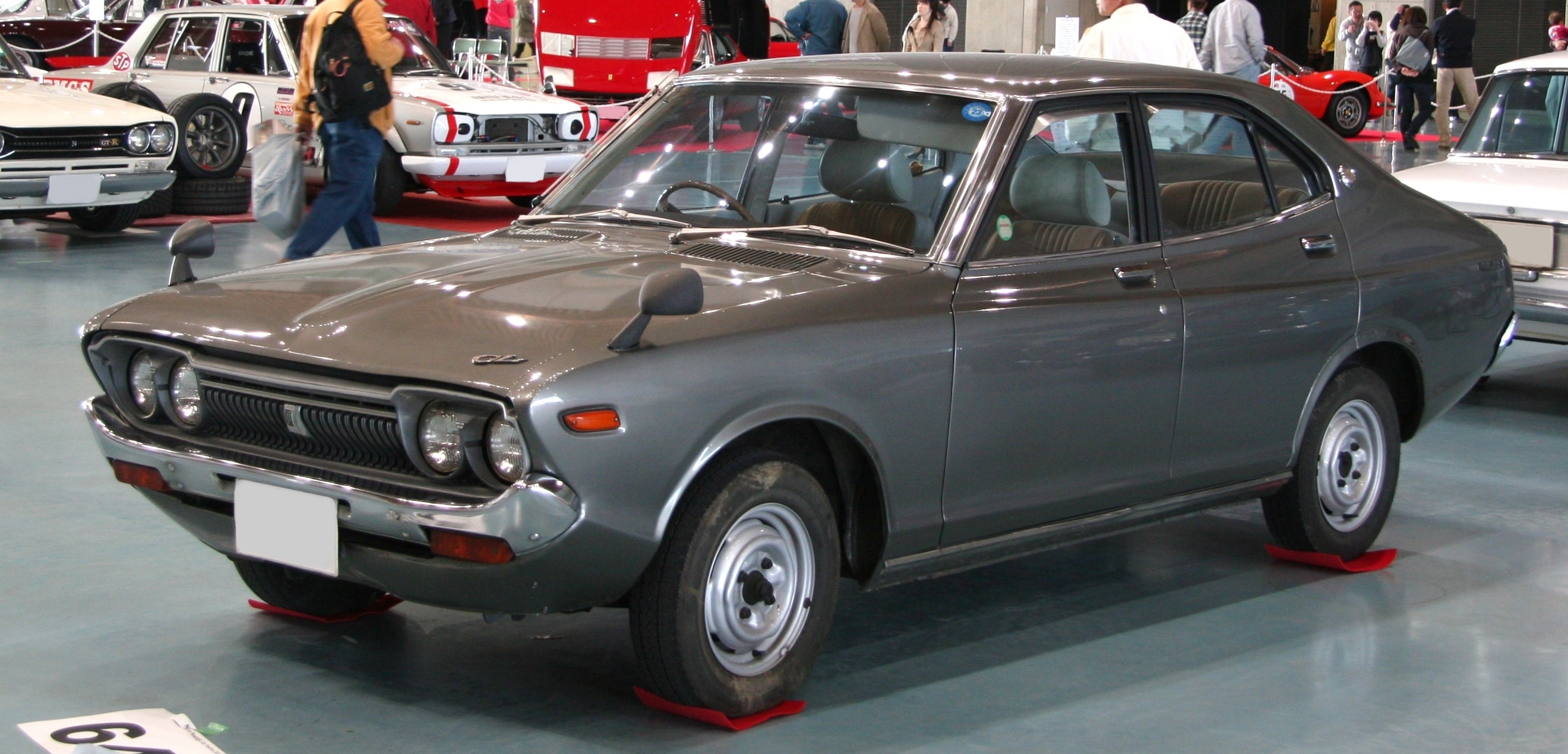 Nissan Violet